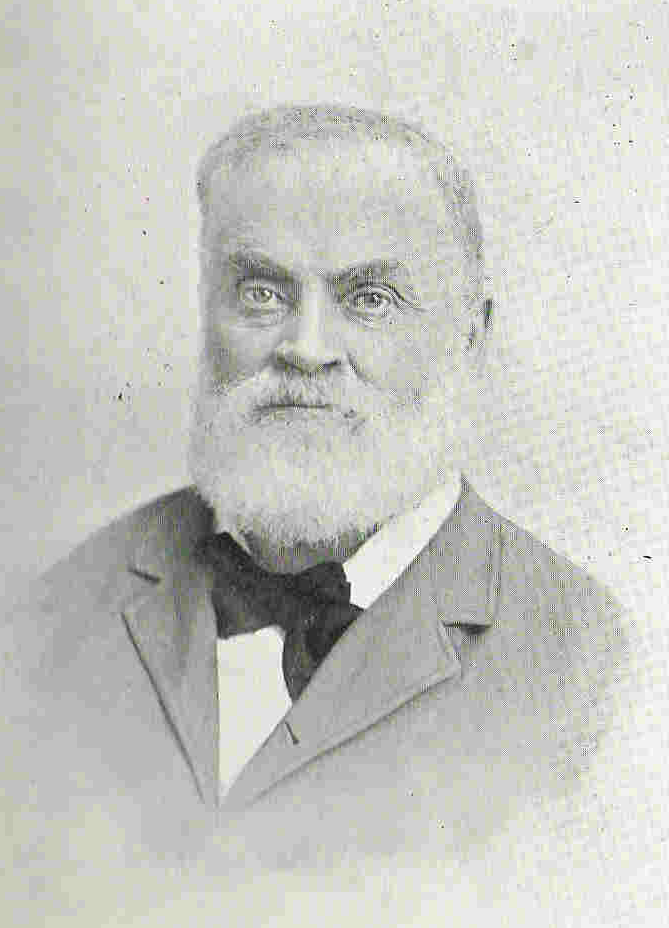 Arthur Morley Francis